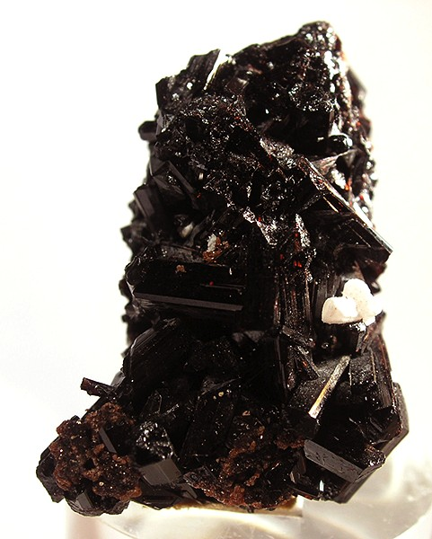 Manganvesuvianite Locality: N'Chwaning Mines, Kuruman, Kalahari manganese fields, Northern Cape Province, South Africa (Locality at ) Excellent cluster of lustrous sharp prismatic crystals, it is much better in person because of the dark color of the crystals and the density of the cluster. Vesuvianites this sharp and this color are rare and desirable. Incidently, this is the new species, Manganvesuvianite, MR 34, 266. 3.7 x 2.2 x 1.8 cm